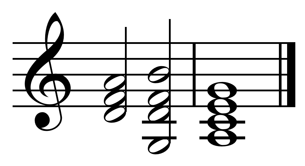 vi7 as tonic substitute. Created by Hyacinth (talk) 06:45, 14 December 2010 using Sibelius 5.